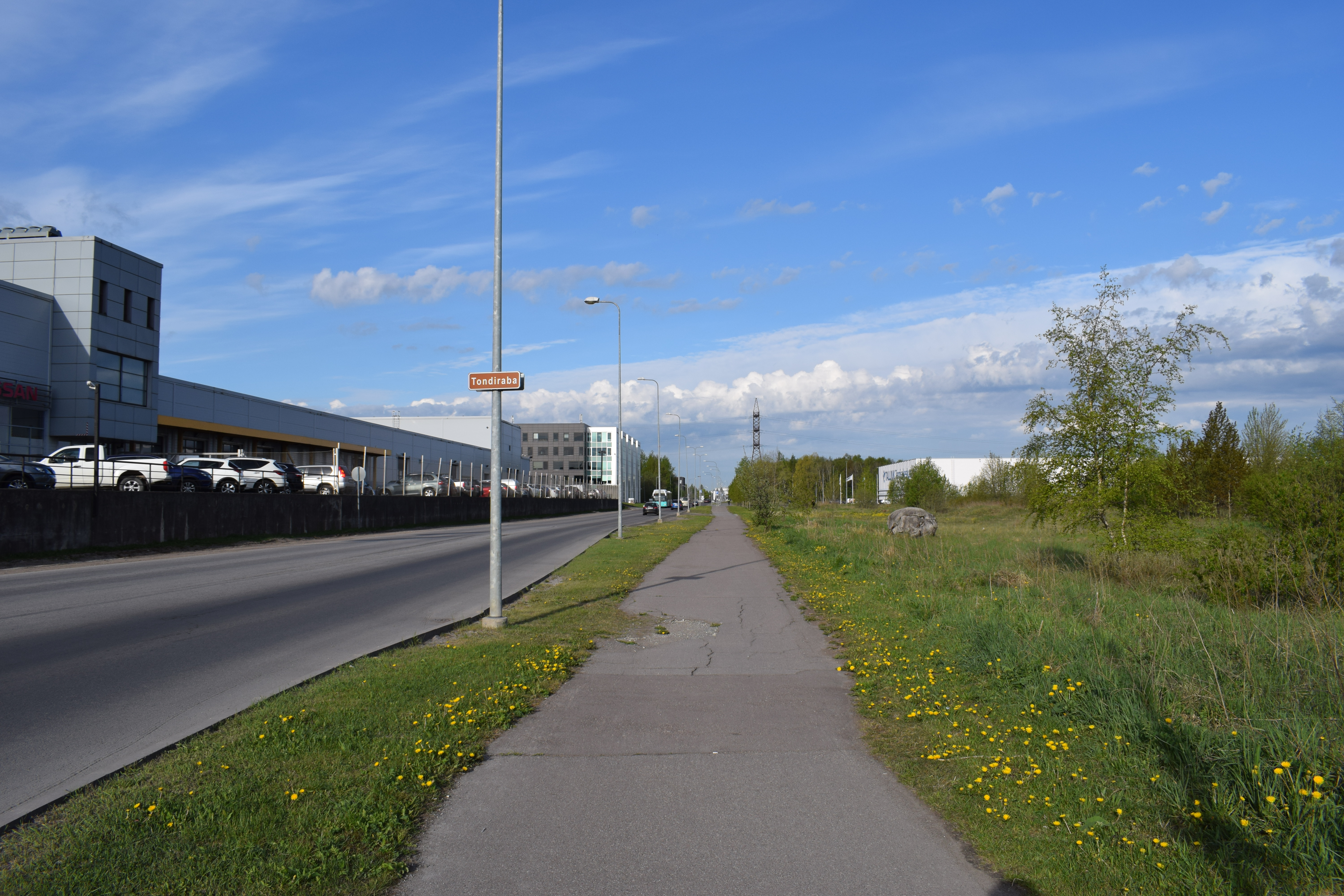 Osmussaare tee